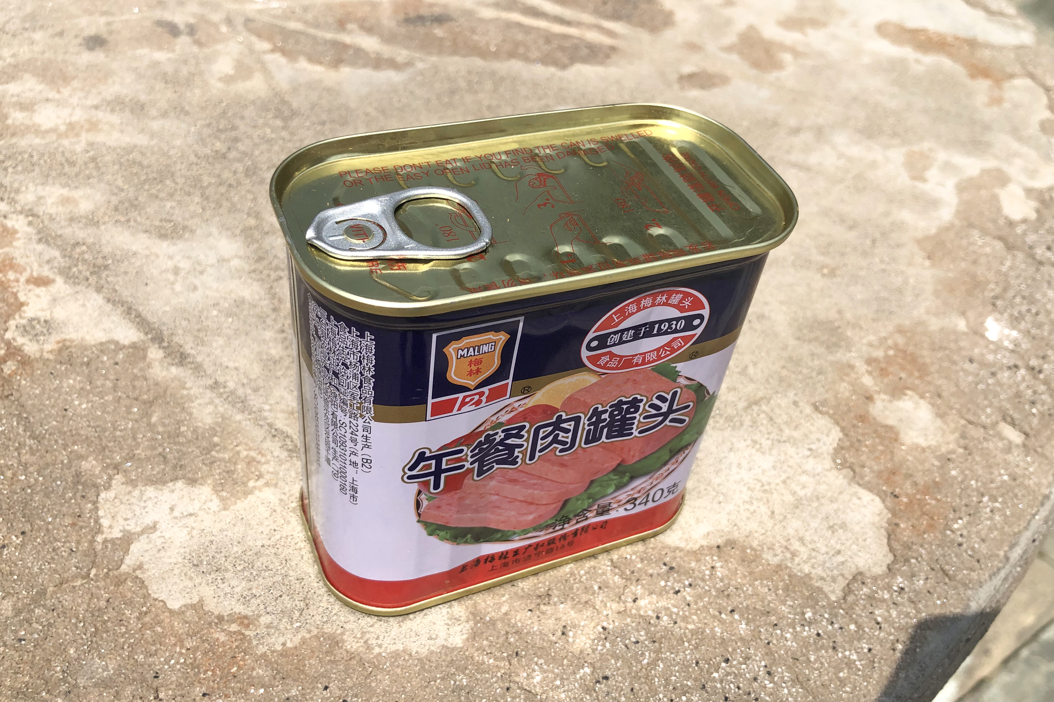 "Canned Pork Luncheon Meat" as the back side says. Prices vary from CNY 17.90 to 19.90.